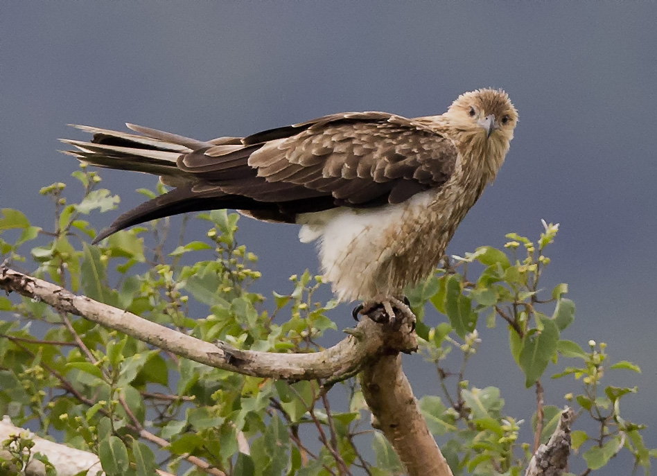 Whistling Kite (Haliastur sphenurus) at Wyvuri, Australia